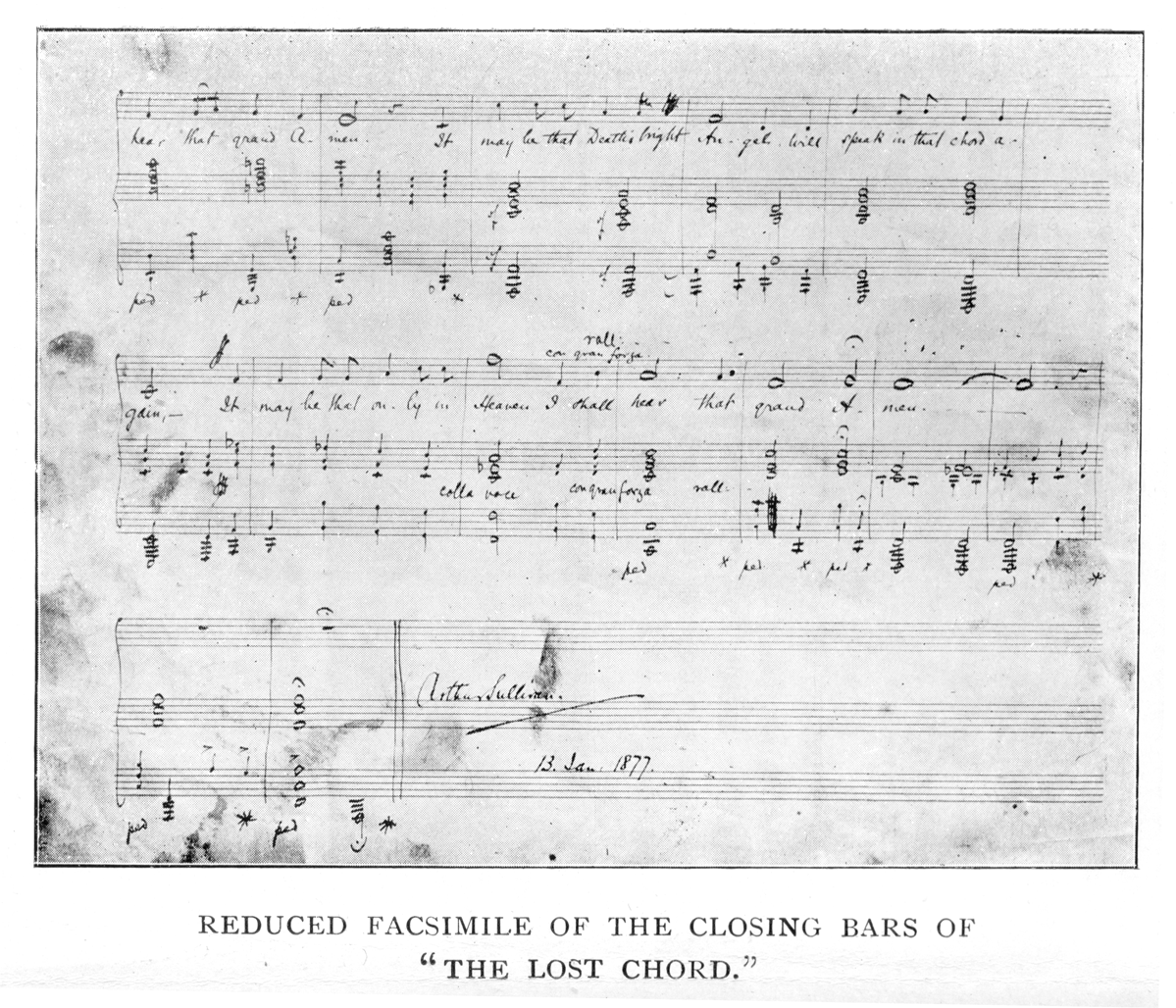 Reduced fascimile of the Closing bars of "The Lost Chord by Arthur Sullivan